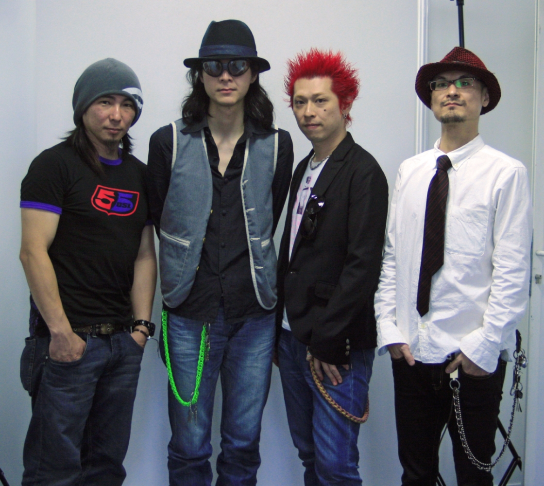 The band GARI posing at Japan Expo 2009 (Paris, France).